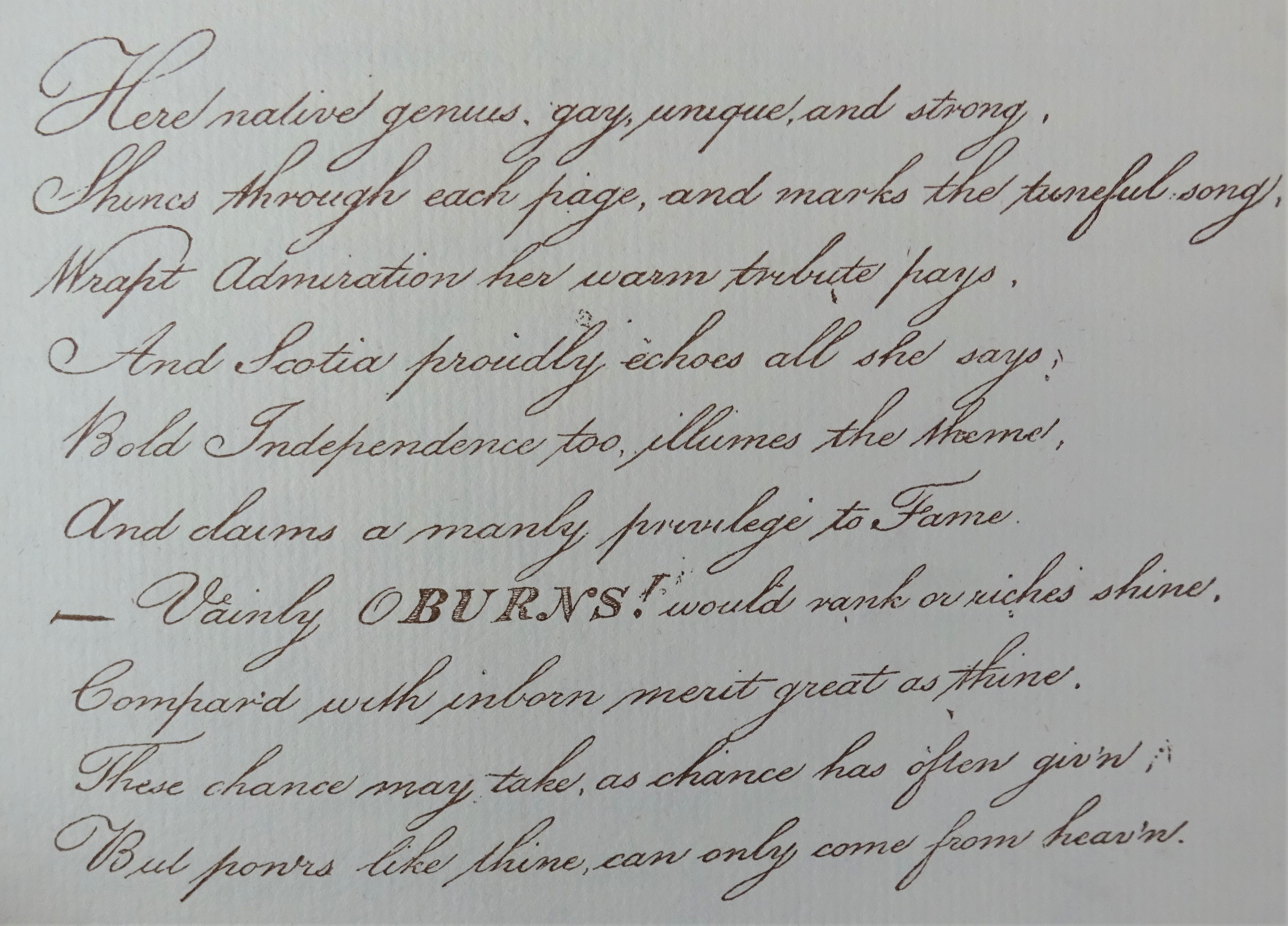 Introductory lines by Miss Helena Craik of Arbigland. 1791 In the 1914 Glenriddel Manuscript facsimile.